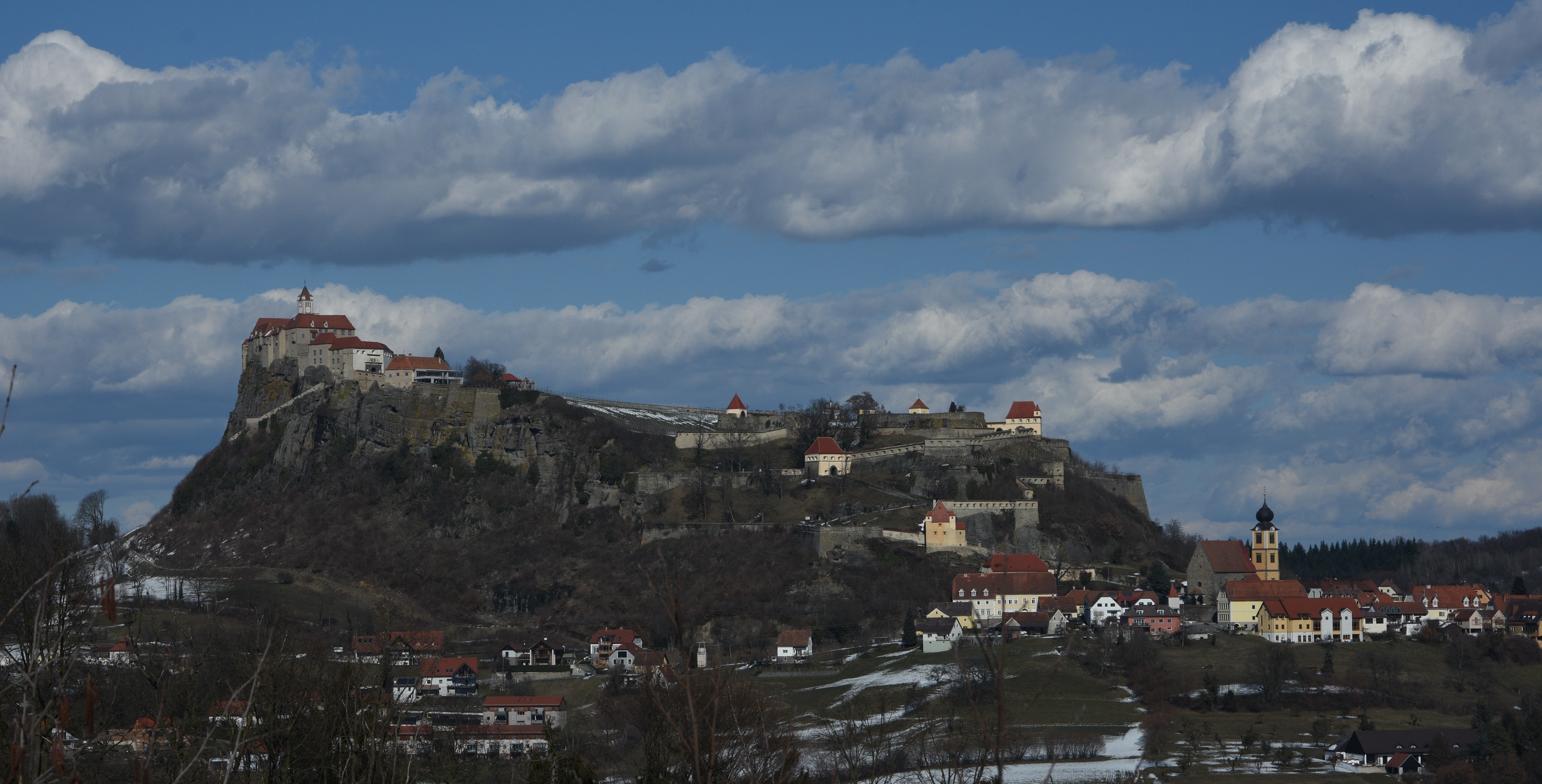 Riegersburg Styria